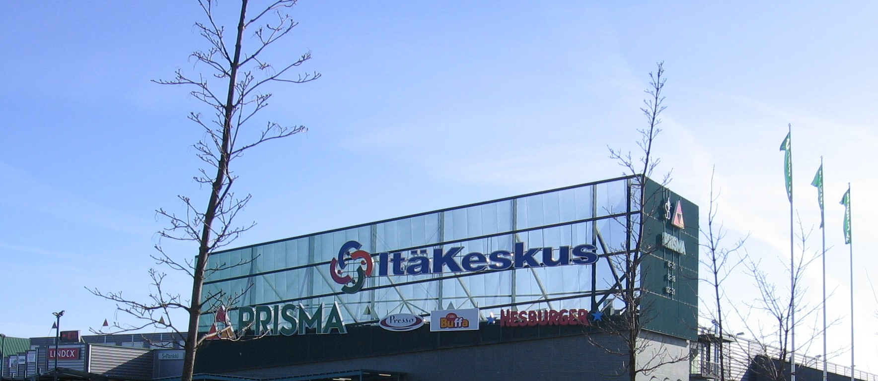 East Centre in Mikkola, Pori